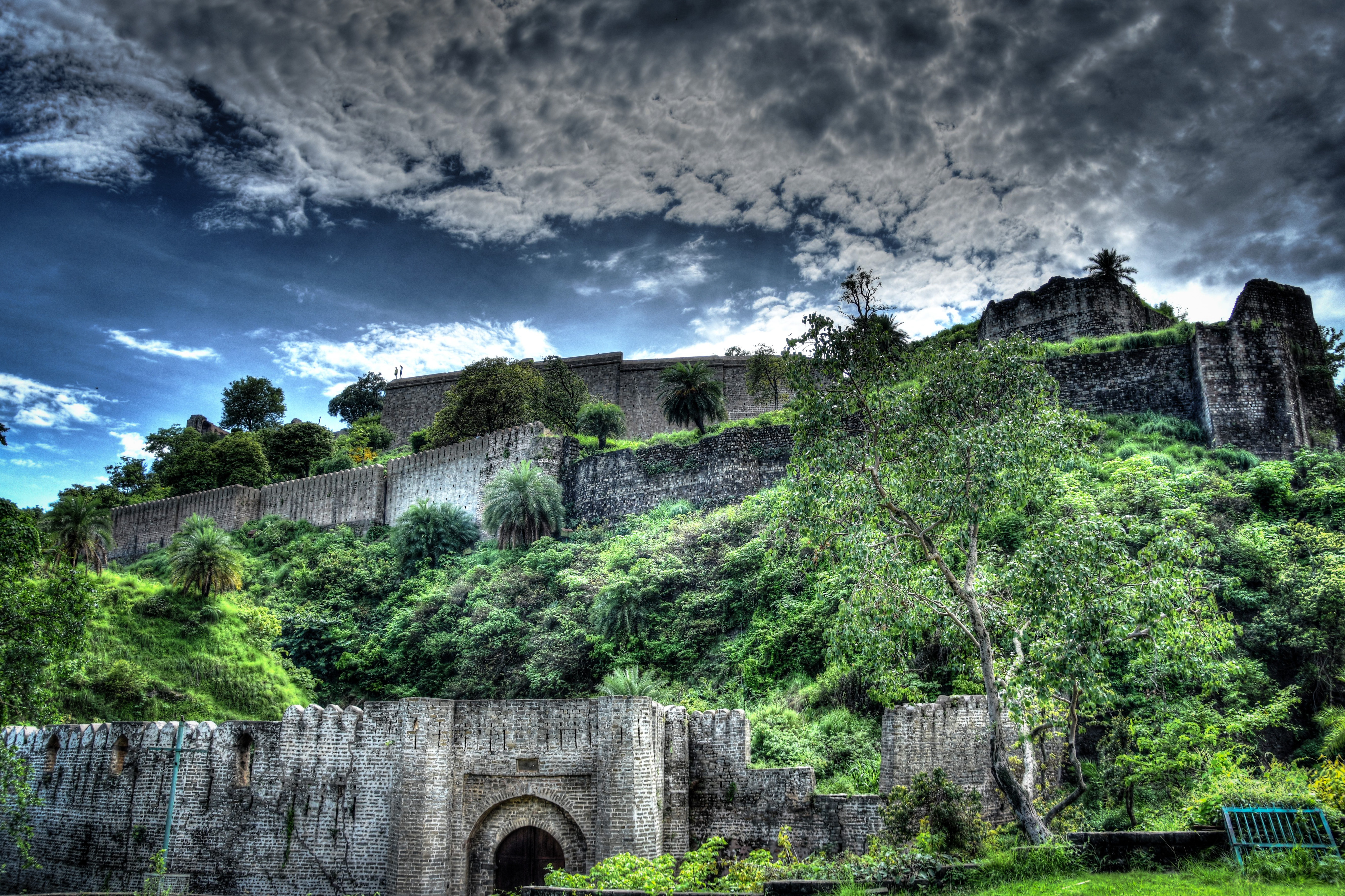 This was taken at Kangra fort situated in Kangra, Himachal Pradesh. A historic place once which was ruled by humans and now ruled by nature's notorious animal called Monkey.